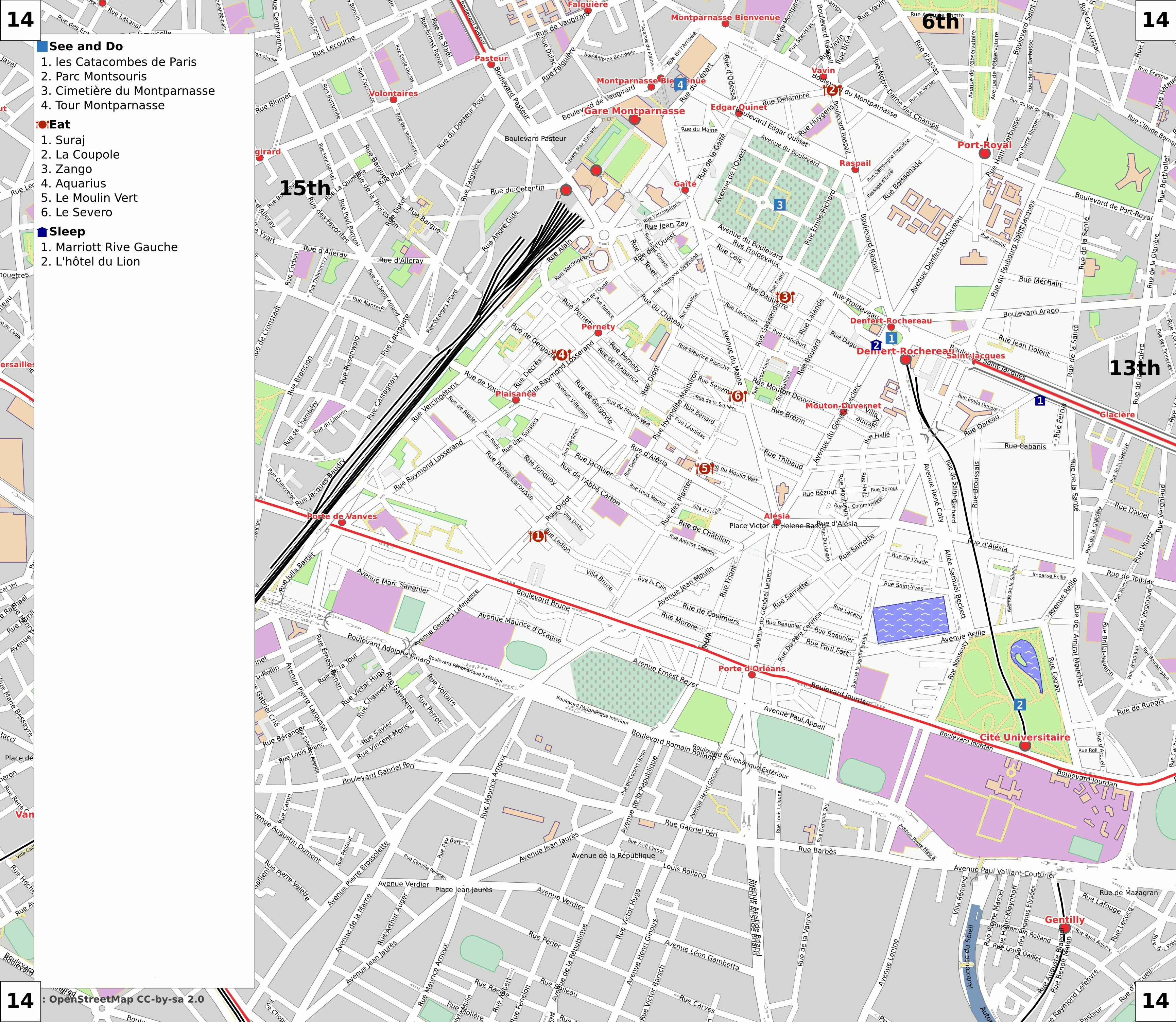 Paris 14th arrondissement map with listings.